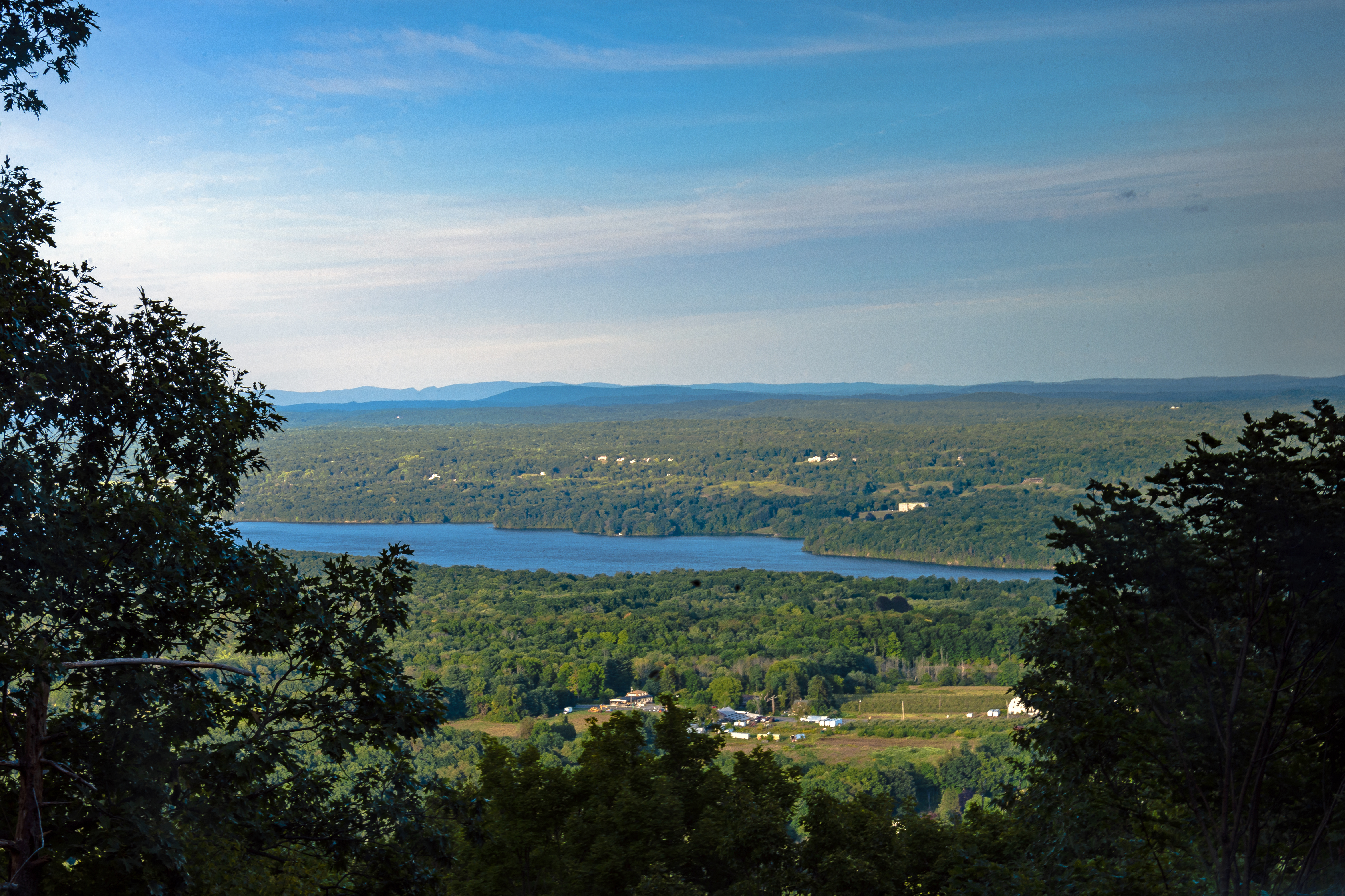 View of Hudson River and northern Dutchess County from Shaupeneak Ridge, Esopus, NY, USA